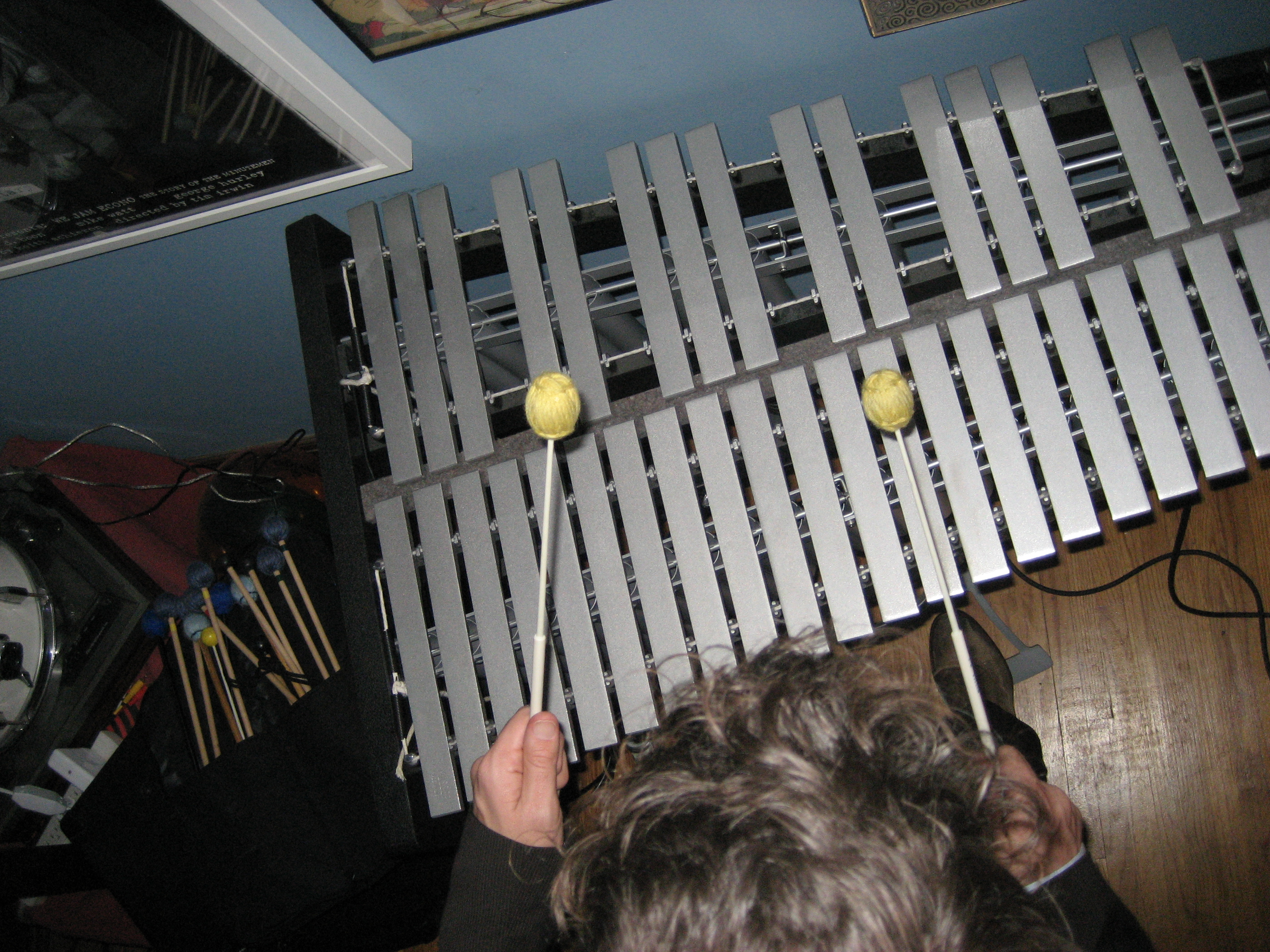 playing vibraphone